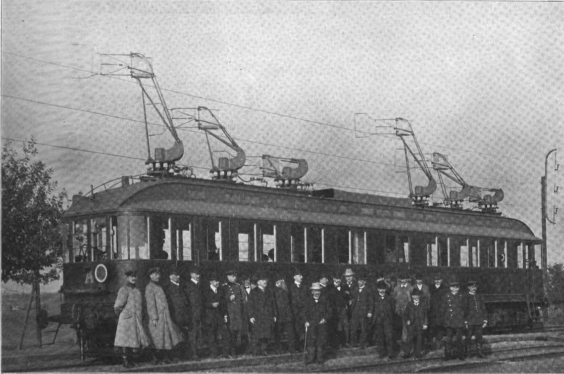 Photograph of the AEG high-speed car immediately after running at 210 km/h on the Marienfeld-Zossen military railway outside Berlin.